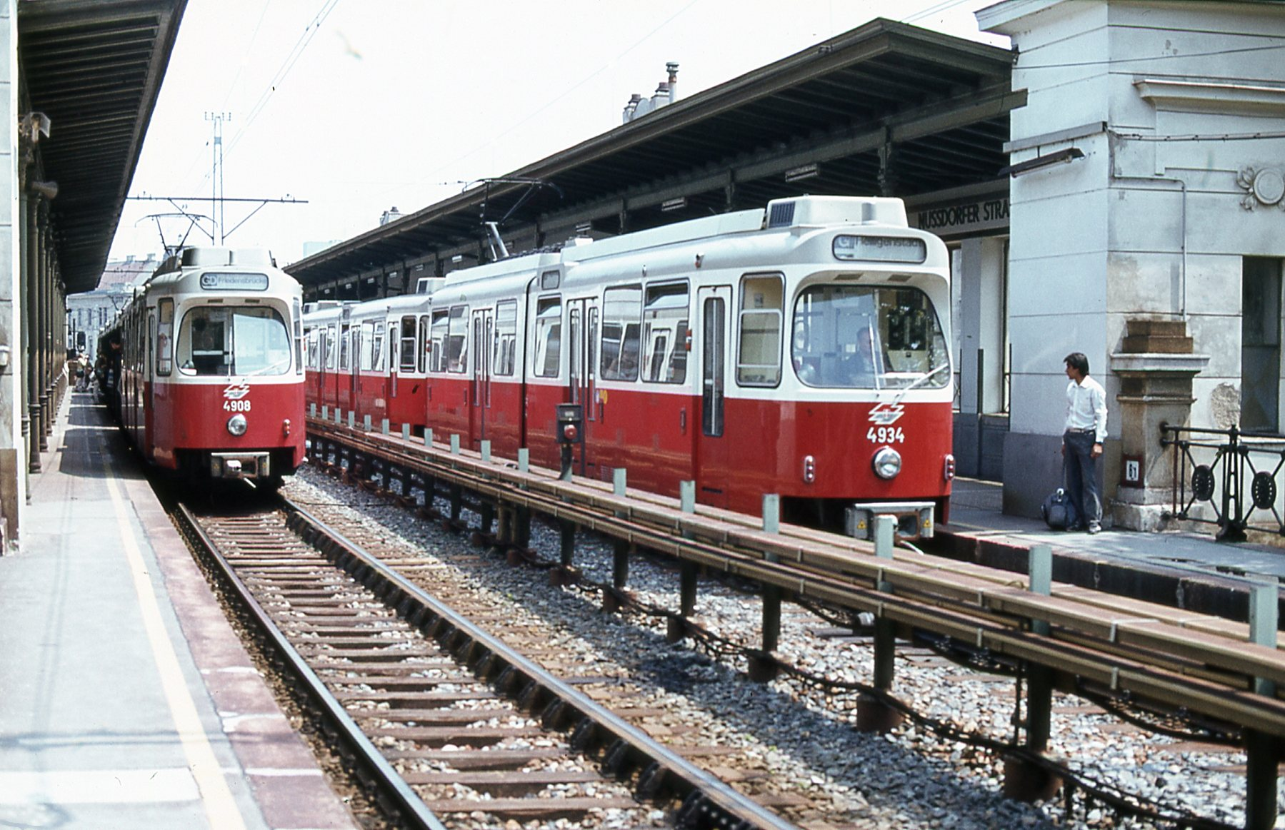 Stadtbahn Vienna, two trains of the E6-c6 class at Nußdorfer Straße station.